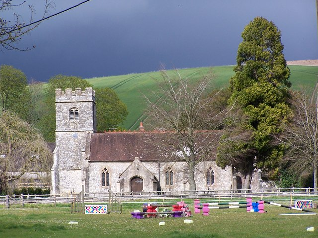 Church with other colours, Codford St Mary